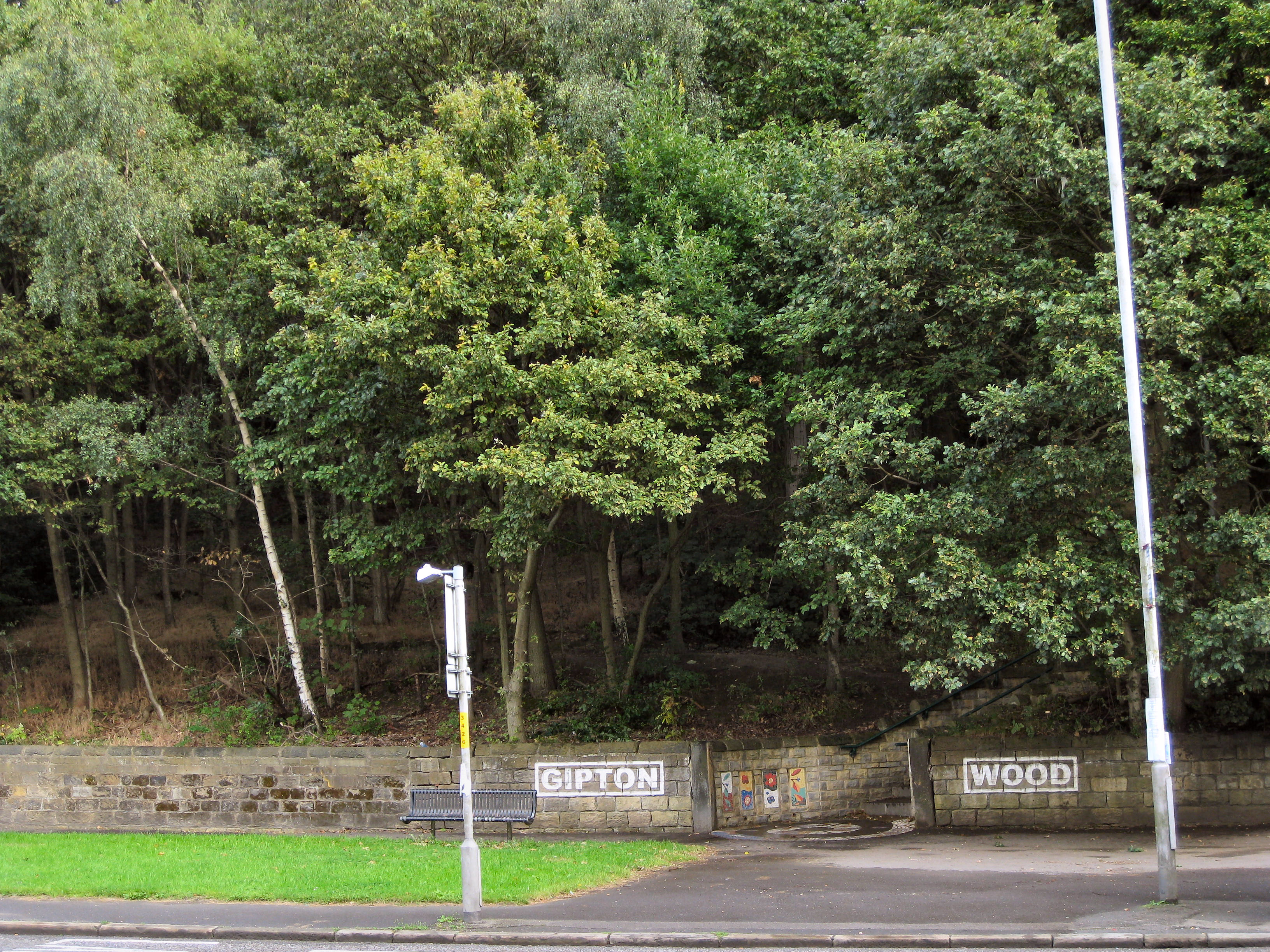 Gipton Wood, viewed from Roundhay Road, Leeds. The steps were restored by the Friends of Gipton Wood, who also provided the decoration.